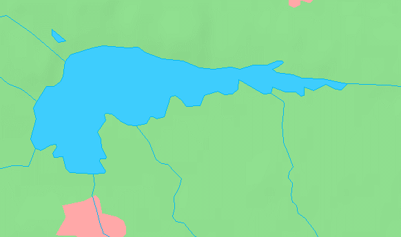 Lake Roxen in Sweden. Bounding box West 15.5°, South 58.4°, East 16.05°, North 58.57°. Center at 58°29′06″N 15°46′30″E / 58.485°N 15.775°E.